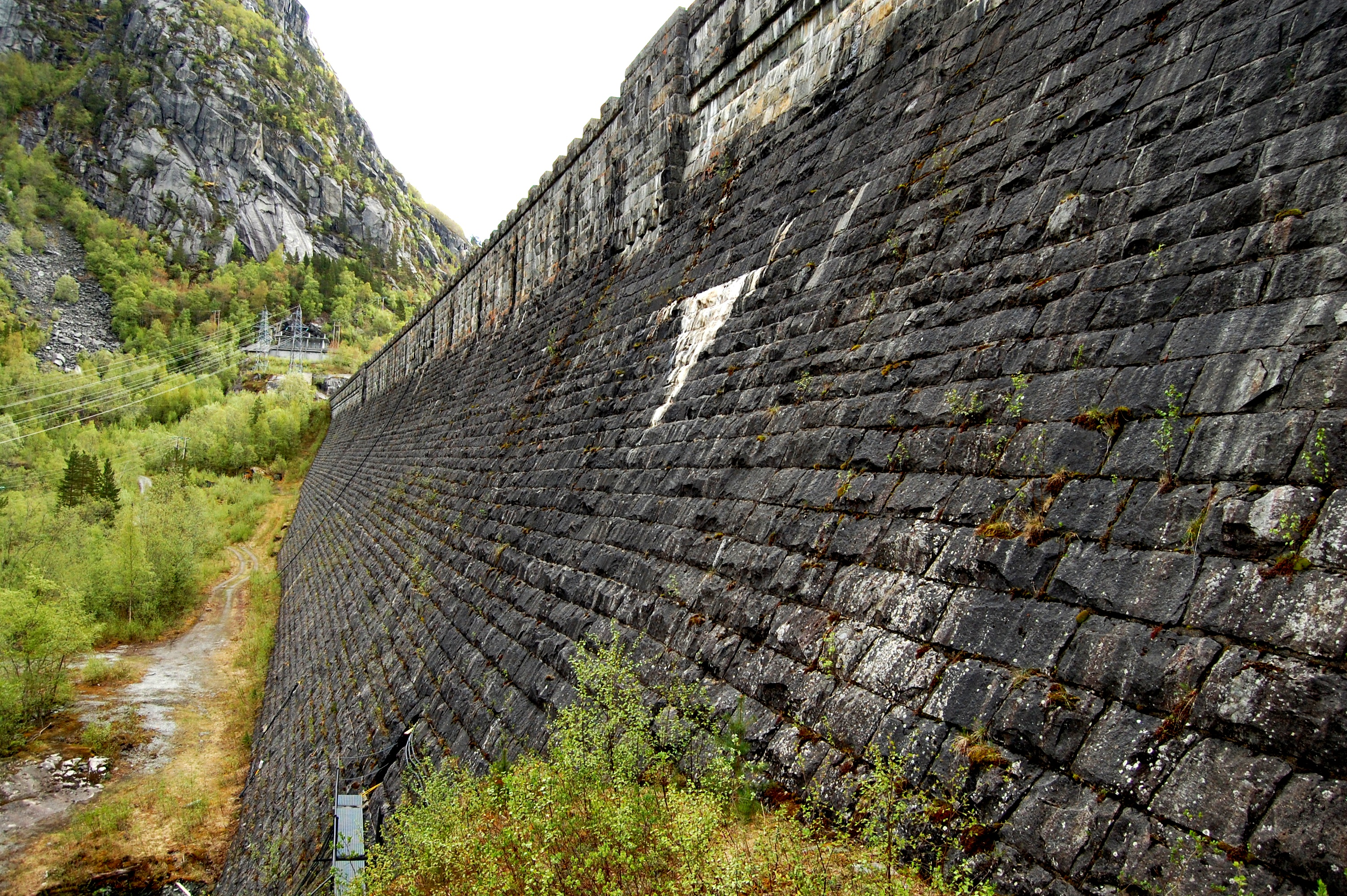 Ringedalsdammen